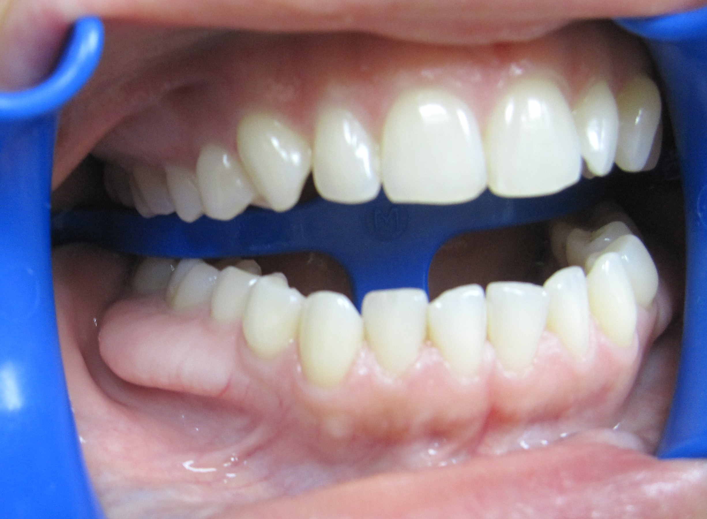 Bones before they were removed from both sides.